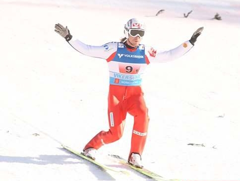 Bjoern Einar Romoeren during team competition of FIS Ski-Flying World Championships 2012 in Vikersund.